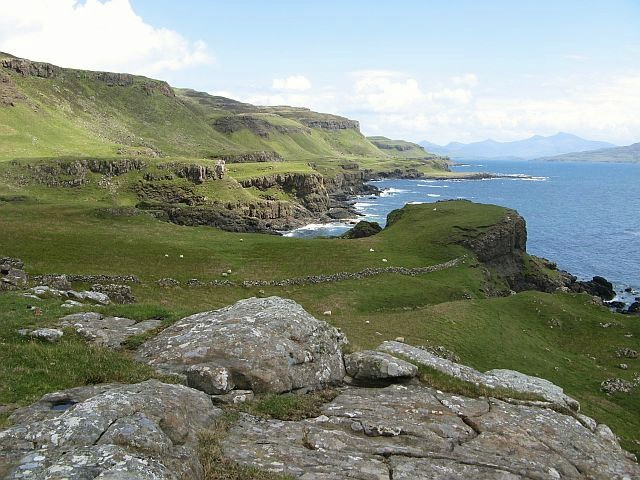 Raised beaches on Treshnish Headland Looking to the south-east along the coast of the Treshnish Headland, with Ben More visible in the distance.